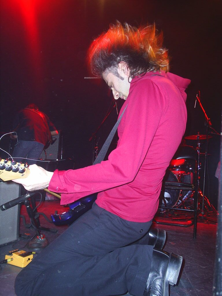 P.E. Dimitriadis in 2007, live in Gagarin 205.